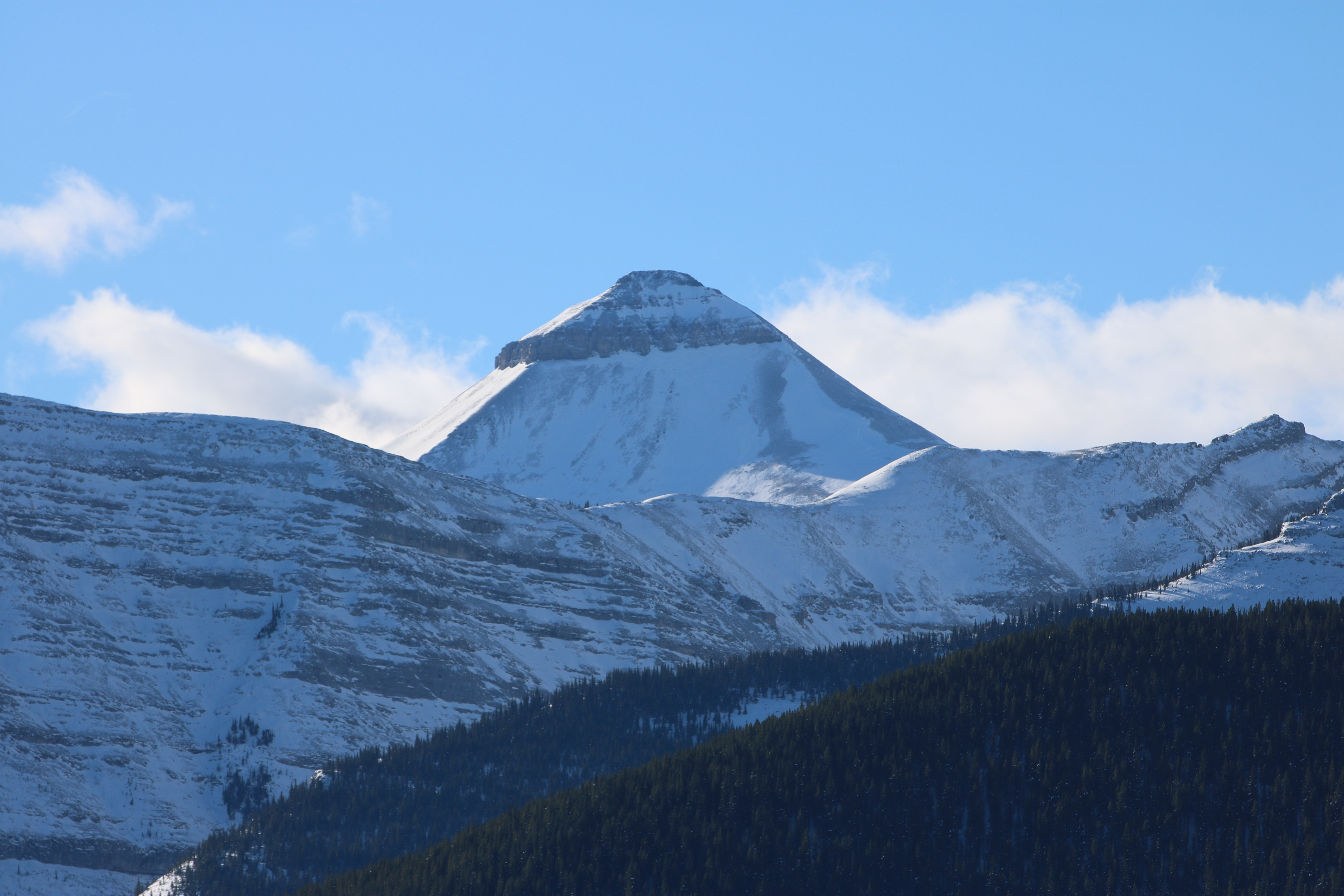 This is as far down the road as you can go at the moment repairs are being done to the little elbow area after the floods etc so the roads are closed off and all the trails down that way.